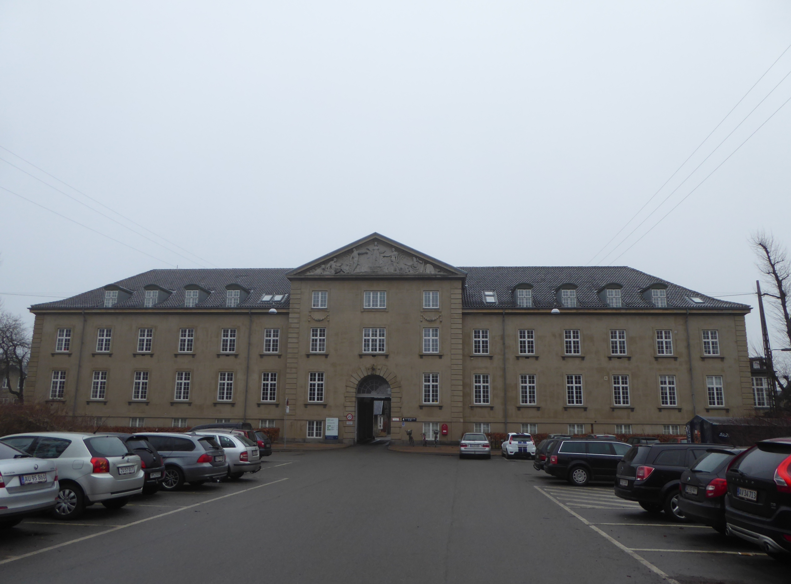 The main building of the former epidemic hospital Øresundshospitalet in Østerbro in Copenhagen.